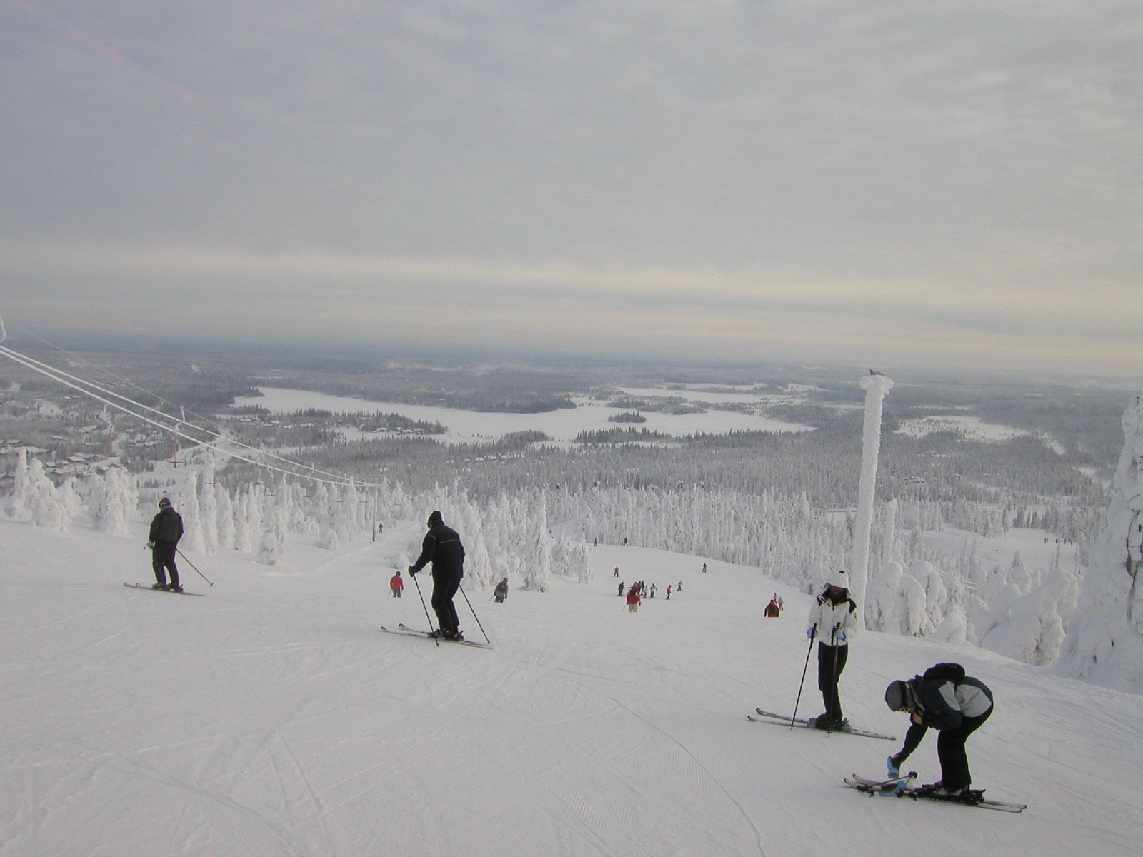 Skiing on top of Ruka, Finland